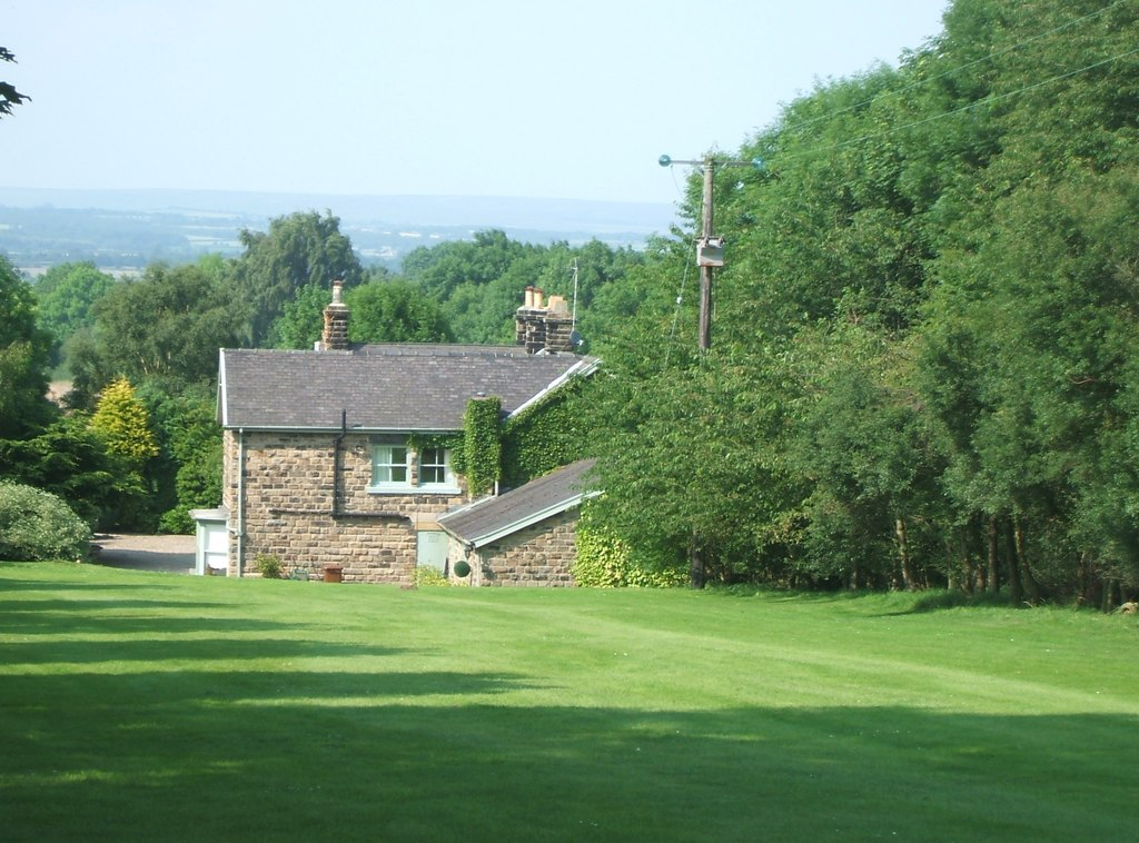 Nunnington railway station (site), YorkshireOpened in 1871 by the North Eastern Railway on the line from Gilling to Pickering, this station closed in 1953 to passengers and completely in 1964. View north up the approach road. The line was to the right of the house, where the trees now are.